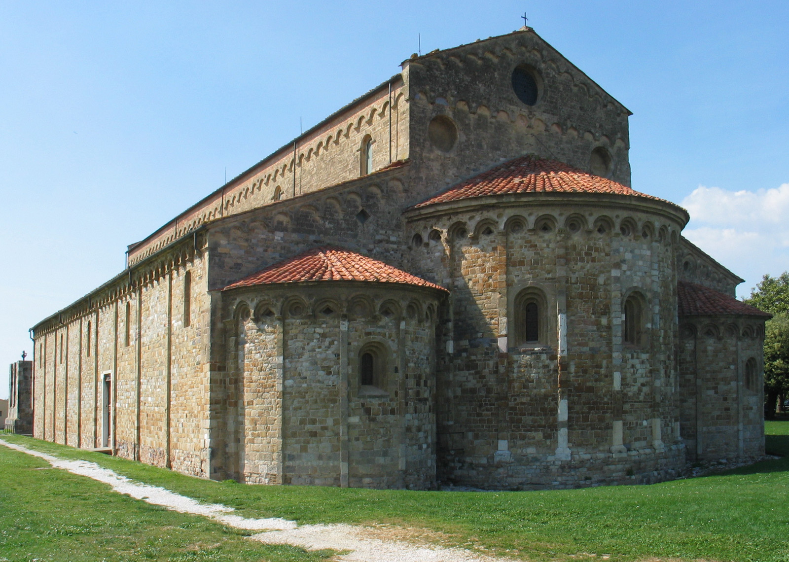 Basilica San Piero a Grado, located near the town of Pisa/Italy